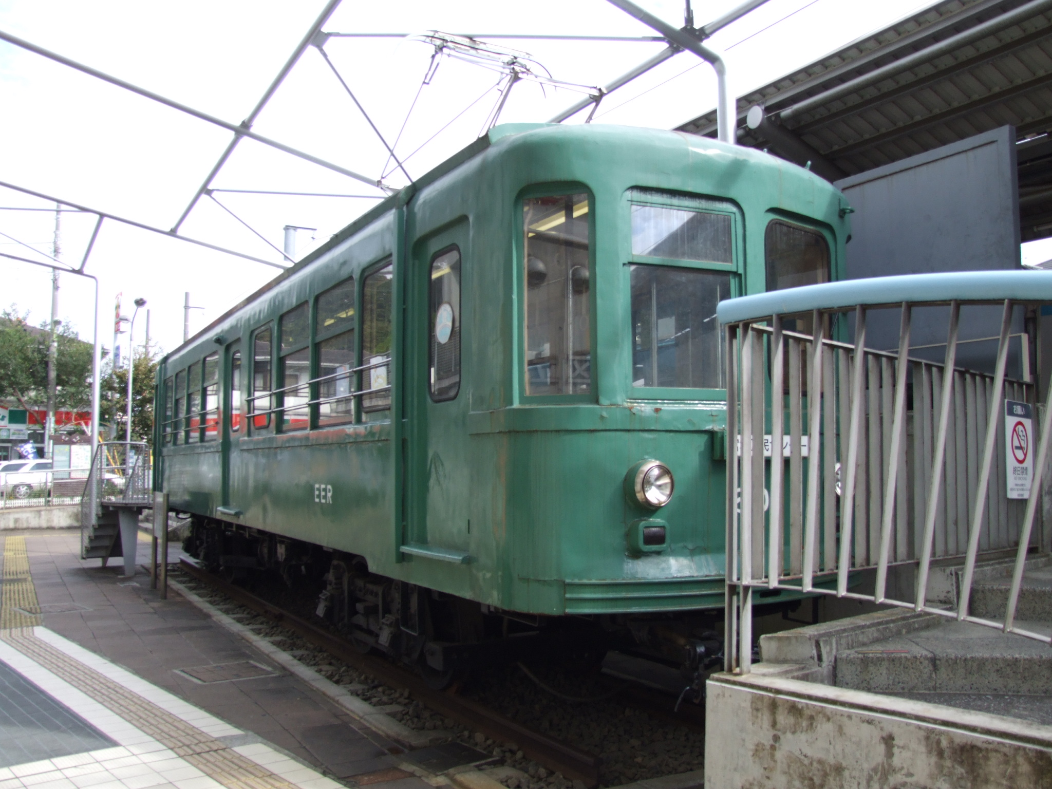 Former Enoshima Electric Railway 600 series EMU car (originally Tokyu Deha 80) preserved in Setagaya, Tokyo